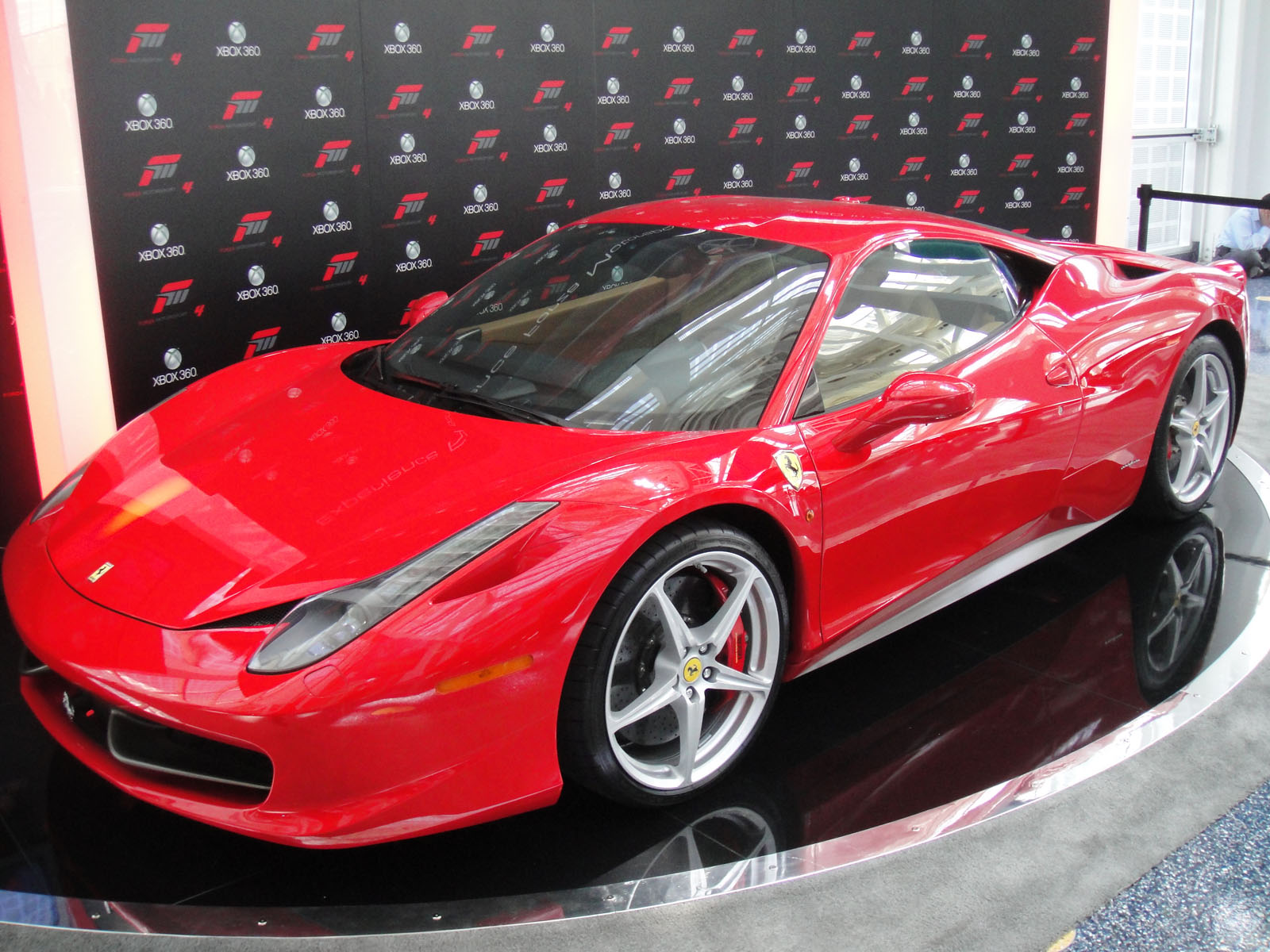 photo 2011 taken by Doug Kline If you're interested in higher resolution versions of my images, contact me via my profile page.